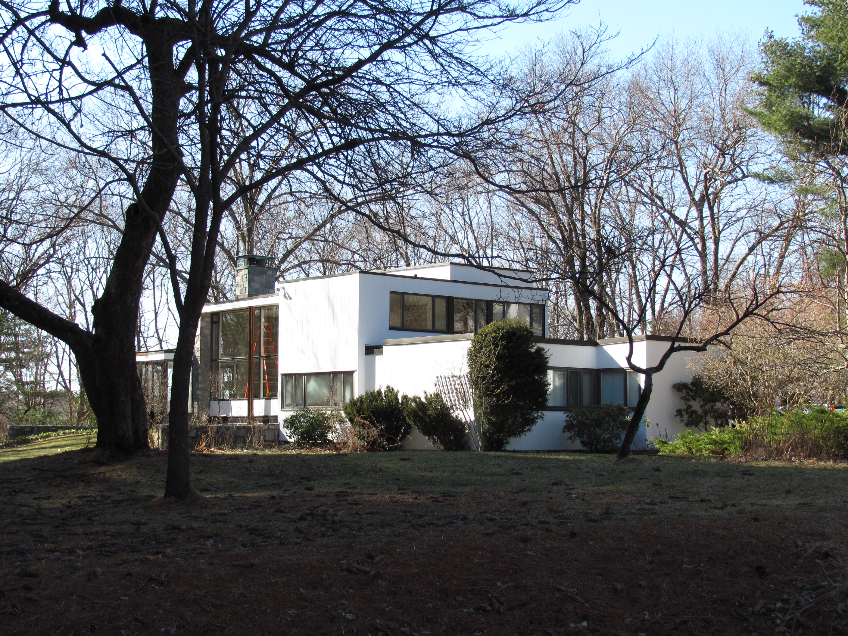 5 Woods End, Lincoln Massachusetts - part of the Woods End Road Historic District